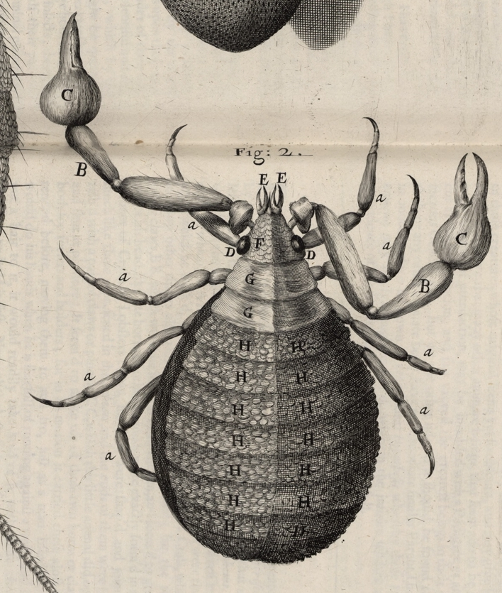 Schem. XXXIII - Of the Crab-like Insect.